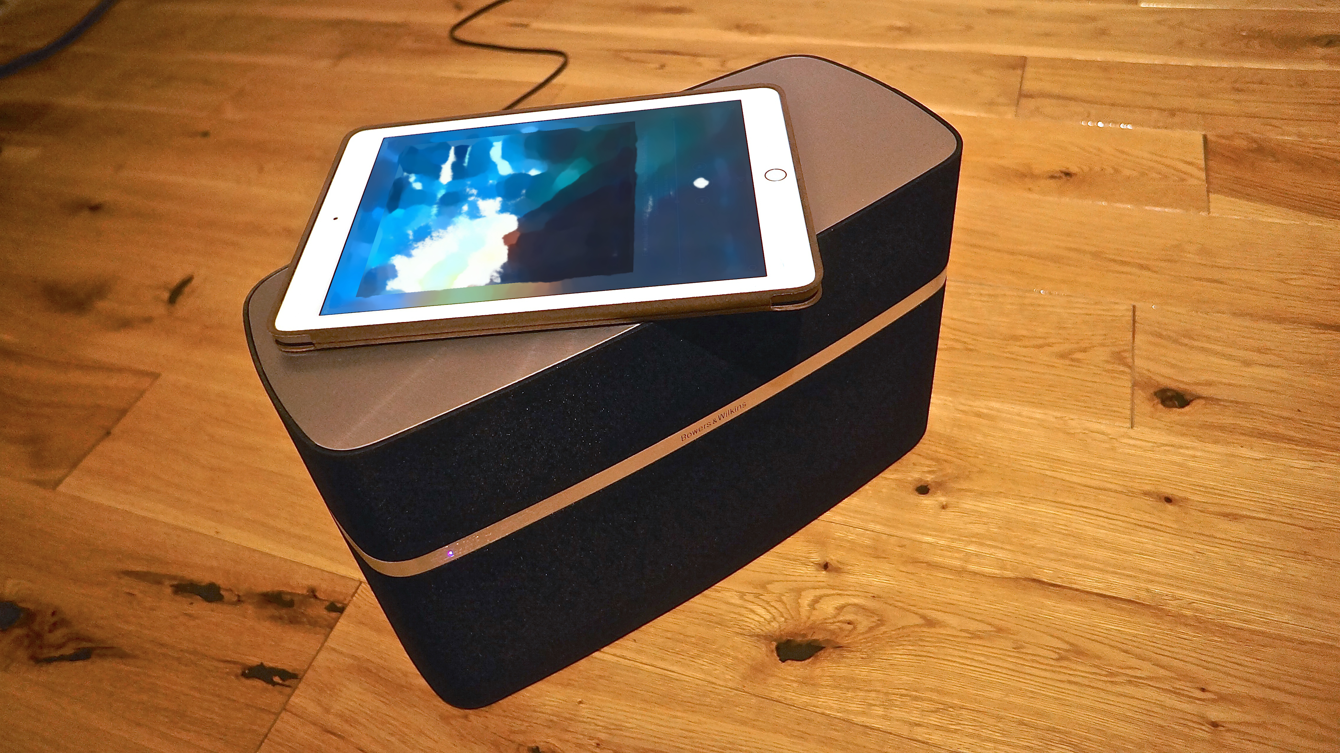 I decided to have a posh boombox in the bedroom rather than old skool loudspeakers. More space, less clutter. One Wire not two. Its just arrived so I am obviously liking it, but well, actually I *am* liking it.